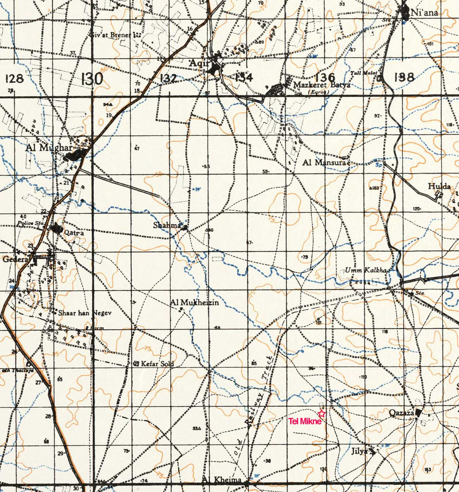 Portion of Palestine, 1:100000, sheet "Jaffa Tel Aviv". Published by War Office 1940. Prepared by Survey of Palestine, based on 1935 map with road revisions to 1939. This image taken from US Army reprint of 1942. Grid spacing is 1km.